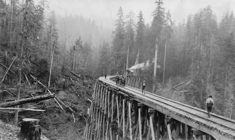 PH Coll 531.J72c Subjects (LCSH): Trestles--Washington (State); Bloedel-Donovan Lumber Mills (Seattle, Wash.)